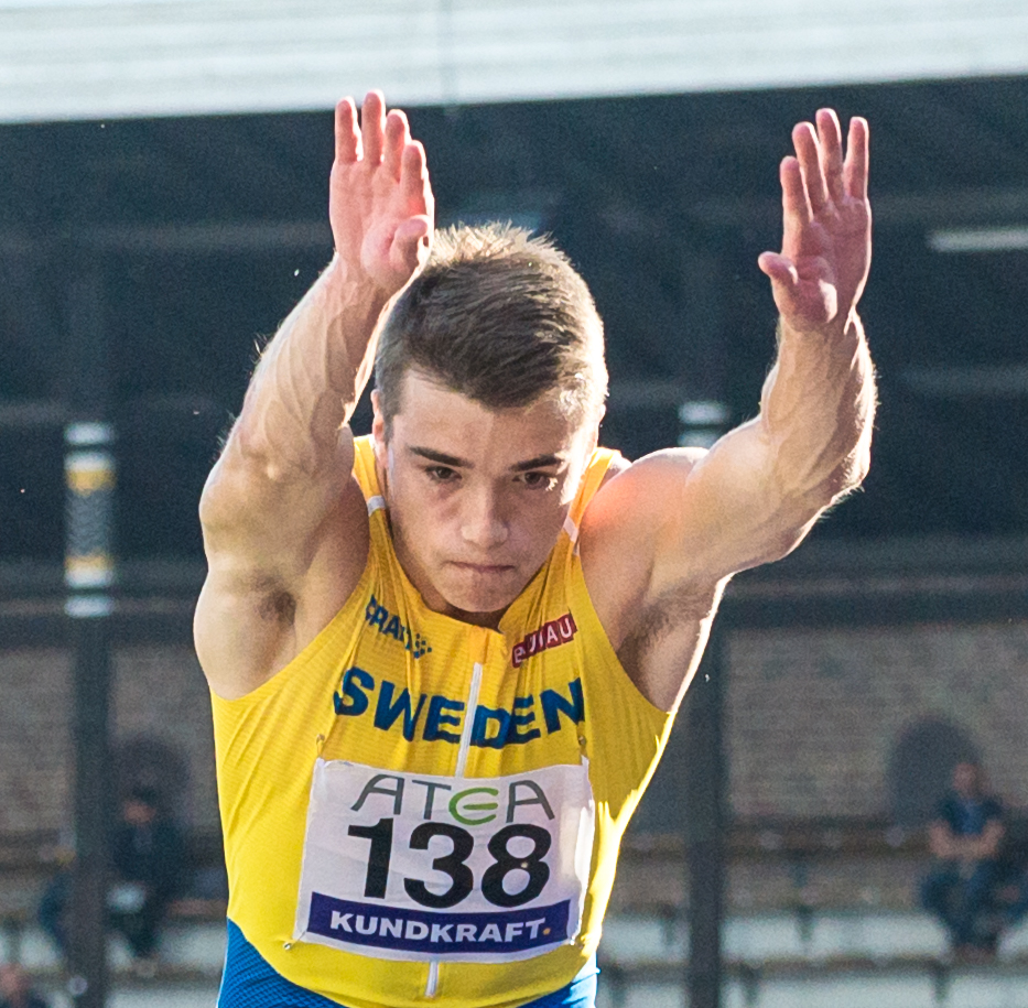 Jesper Hellström during the Finland-Sweden athletics international 2019 at the Stockholm Stadium in August 2019.